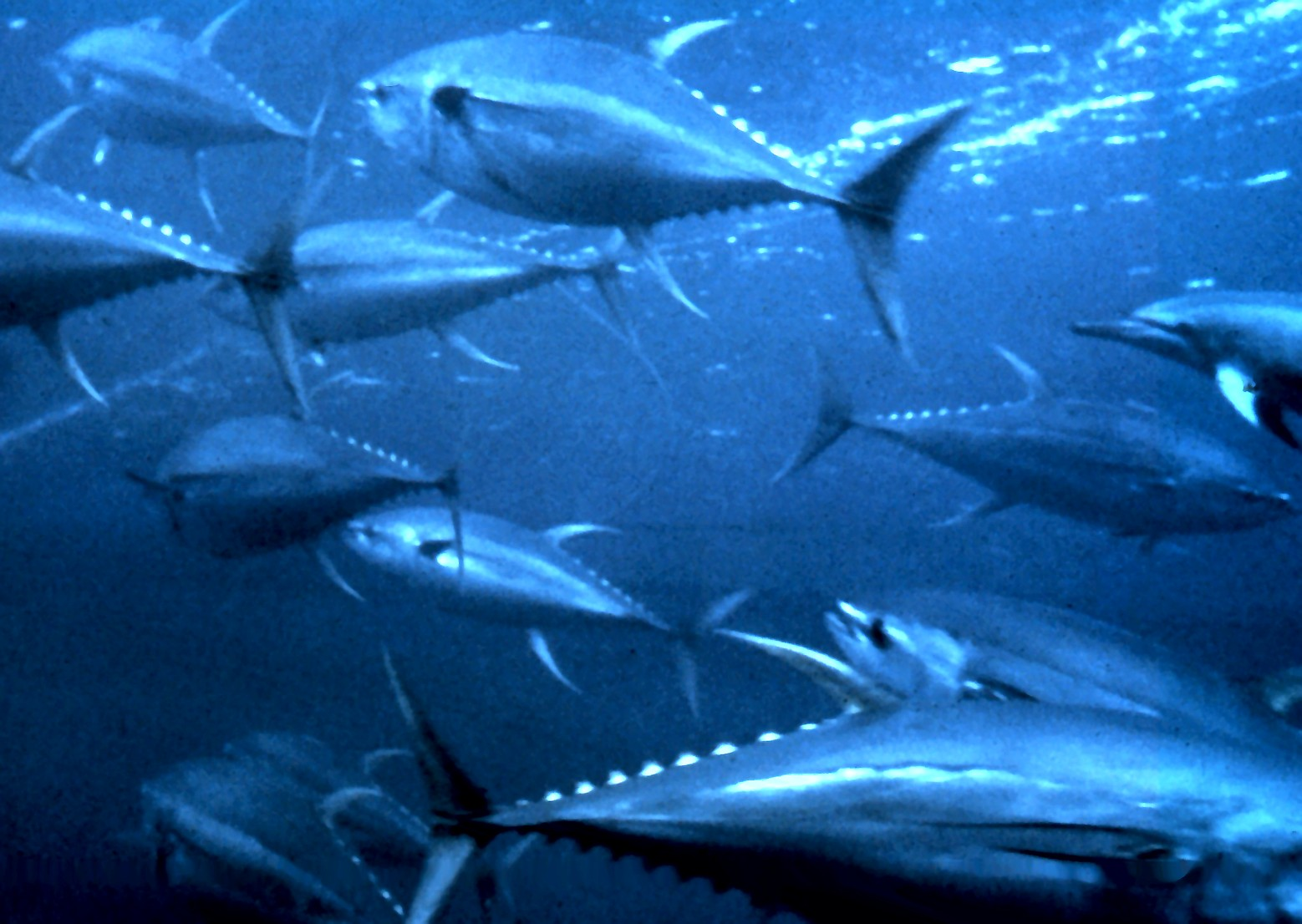 Yellowfin tuna (Thunnus albacares) in the Gulf Stream